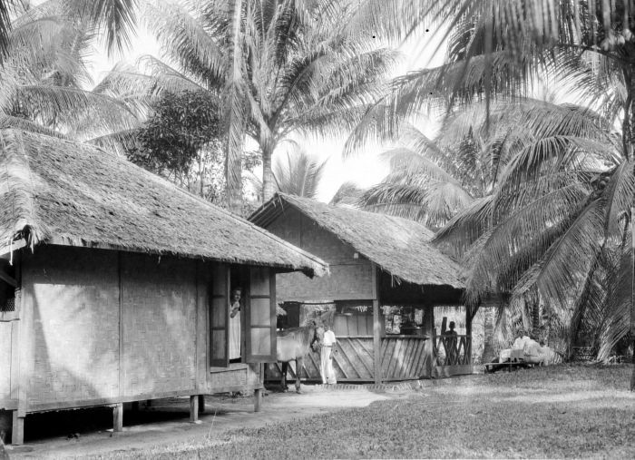 Houses of Europeans at the Sawarna plantation